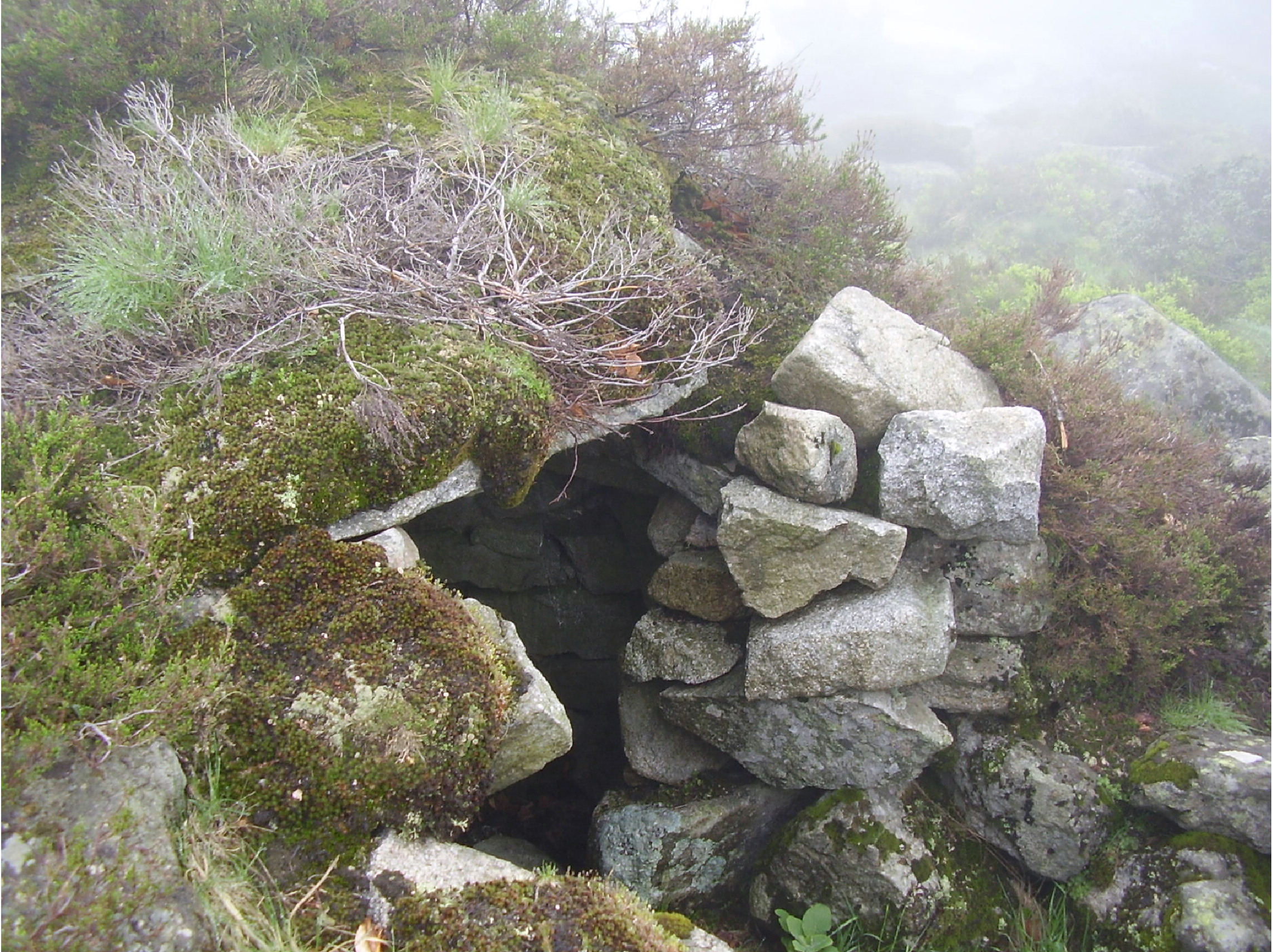 An orri (summer mountain pasture) in the Garbettou valley in the Ariège département (French Pyrenees).